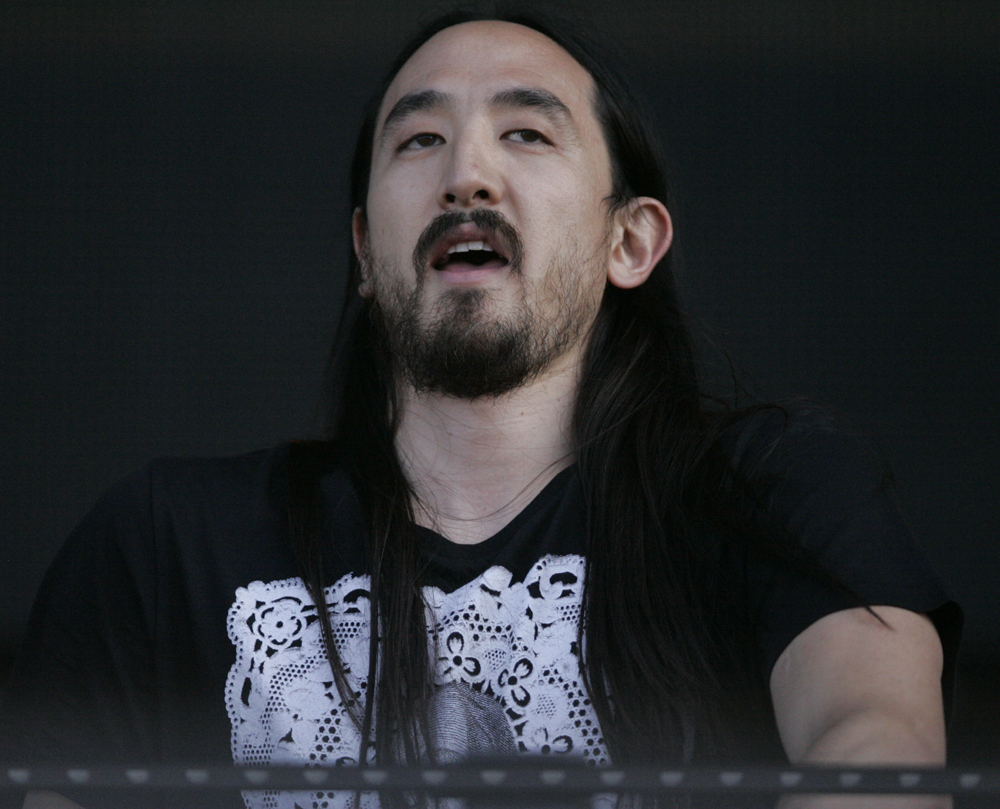 Future Music Festival, Randwick, Sydney, Australia...